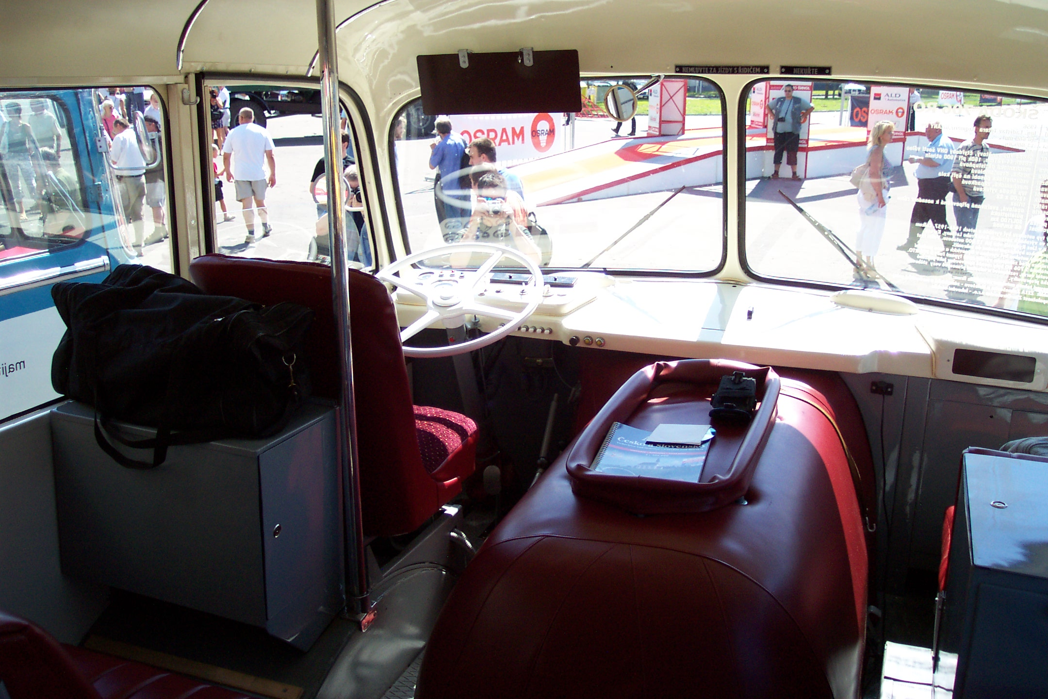 Bus model Škoda 706 RO at the exhibiton in prague Výstaviště - exhibition park